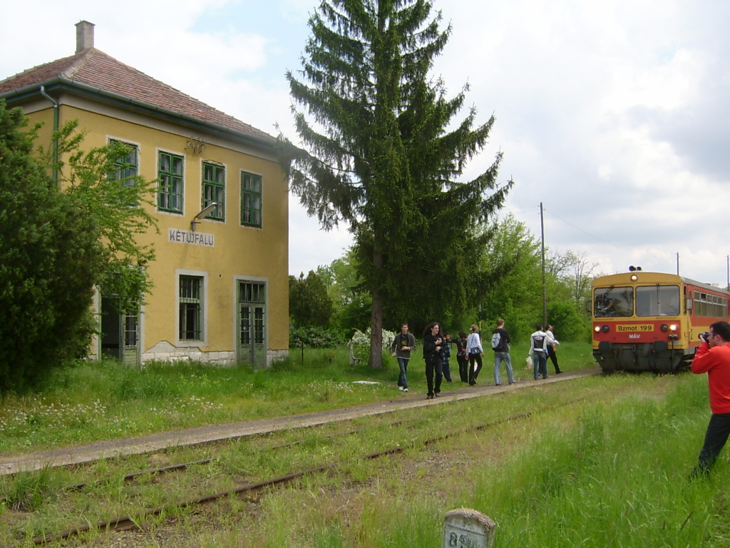 Railway station of Kétújfalu int the Sellye–Középrigóc line, Baranya county, Hungary